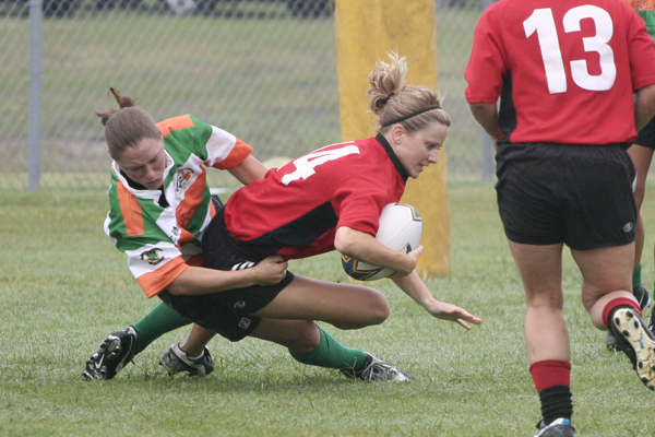 Savannah's Katie Thomen tackling Lauren "Speedy" Buslinger Raleigh Venom vs. Savannah - tournoi de rugby à sept féminin aux Etats-Unis d'Amérique - rugby union seven tournament in the United States